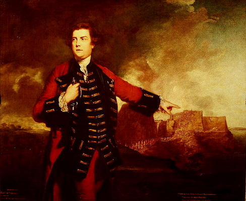 General William Keppel, Storming the Morro Castle, (oil on canvas); by Reynolds, Sir Joshua (1723-92); 147x176 cm; Sir George (van) Keppel, Baronet, P.C., K.G., 3rd Viscount Bury, 3rd Earl of Albemarle, 3rd Baron Ashford, M.P. for Chichester, Keeper and Governor of Jersey, Lord of the Bedchamber to the Duke of Cumberland, Commander-in-Chief of the reduction of the Havannas, commander of the 20th Foot, and General. He was 3rd in line of descent from HM King Charles II. (1724-1772) Museu Nacional de Arte Antigua, Lisbon, Portugal; Giraudon; English, out of copyright